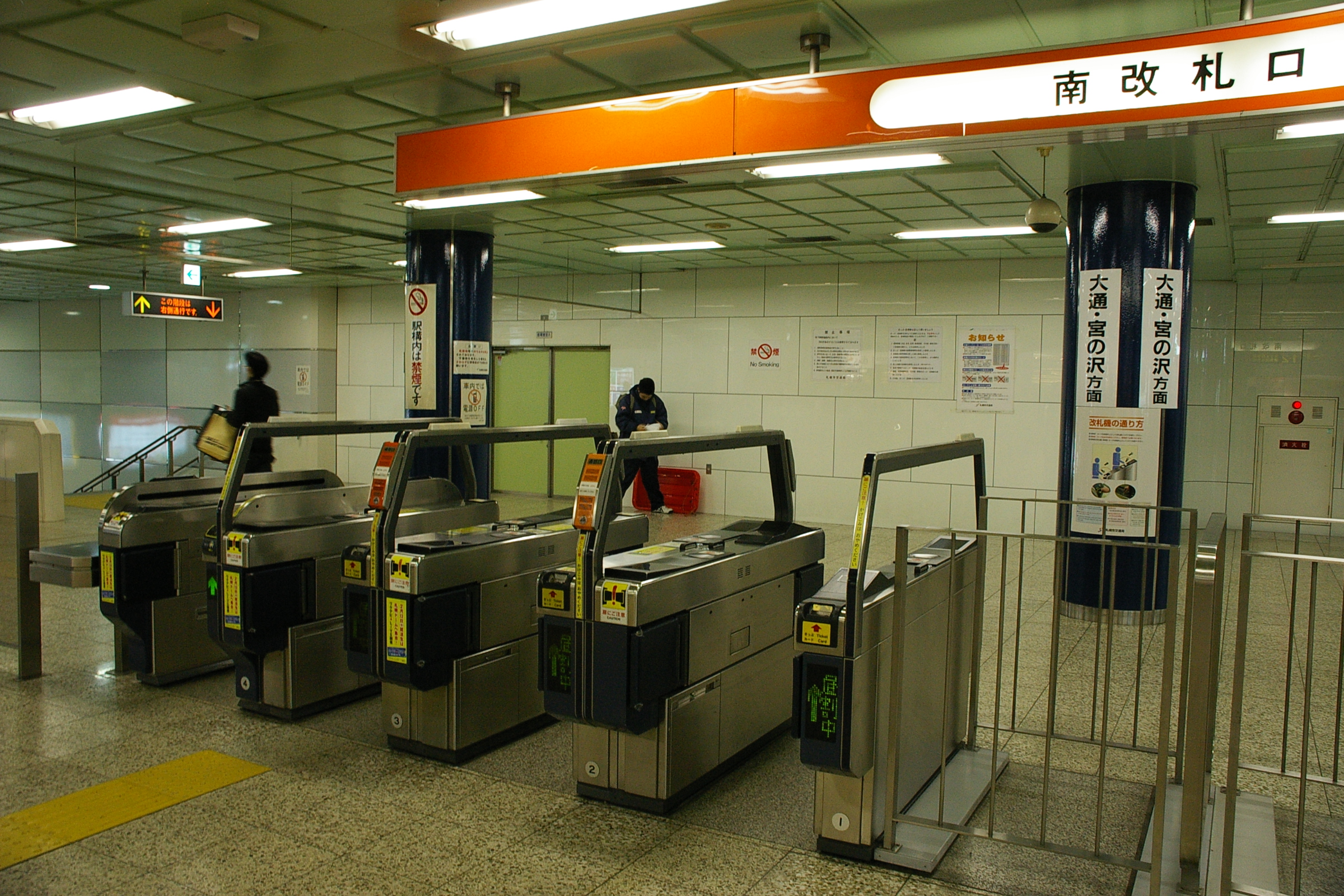 Sapporo City Subway ticket gate machine.